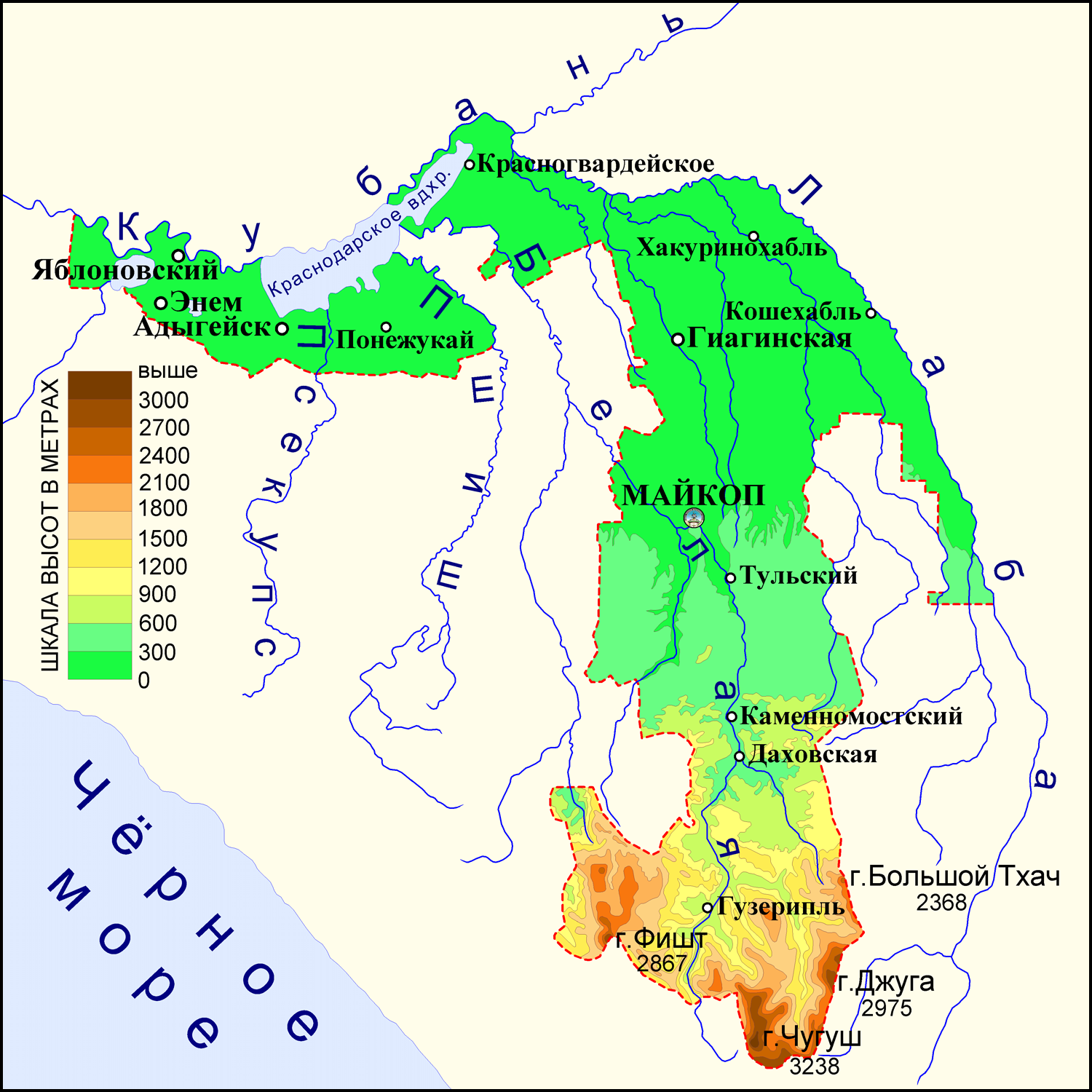 Adygea Topography